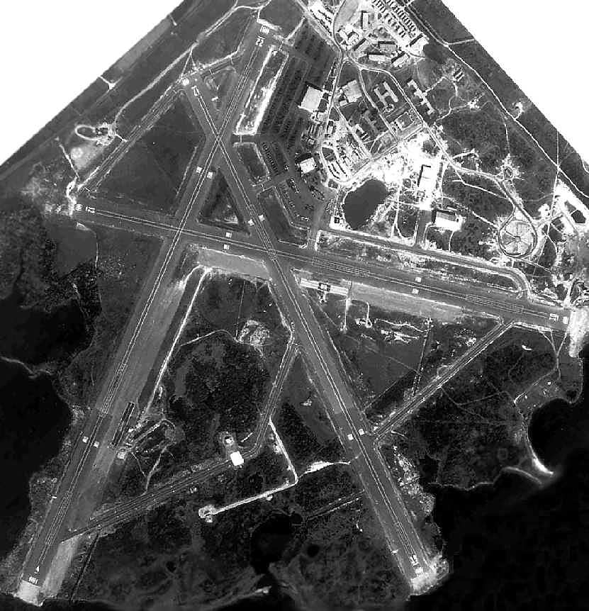 Aerial view of Naval Auxiliary Air Station Charlestown in Rhode Island